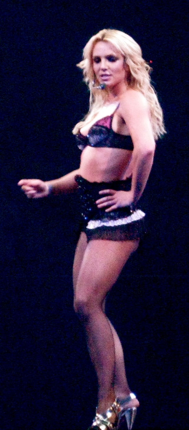 the circus starring britney spears, philips arena, atlanta, 03/05/09